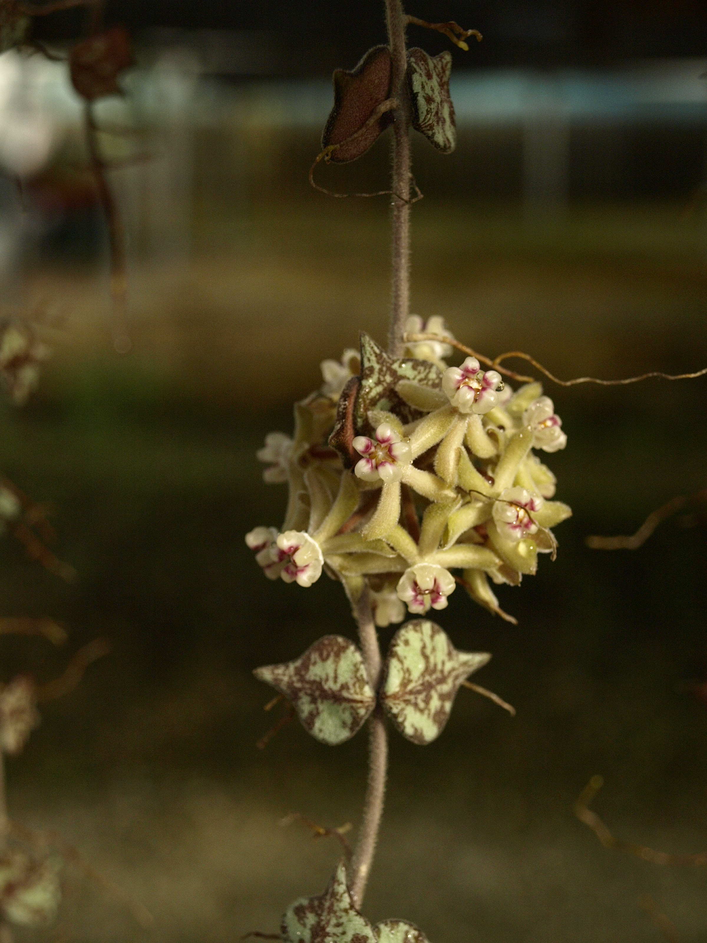 Biological Sciences Greenhouse, Florida International University, Miami, FL, USA.